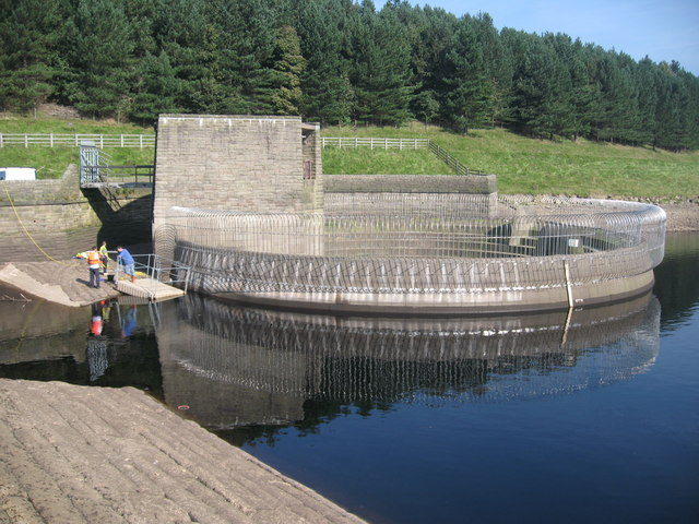 Dovestone Reservoir Overflow. Modifications to the overflow at Dovestone reservoir have had to be made after people were repeatedly climbing into the overflow and sitting on the circular ledges above the sheer 150 foot drop inside. The modifications have included the stainless steel climb proof fencing bolted all around the perimeter of the overflow which still allows the flow of water to pass through. The original overflow was built in 1967. 985784